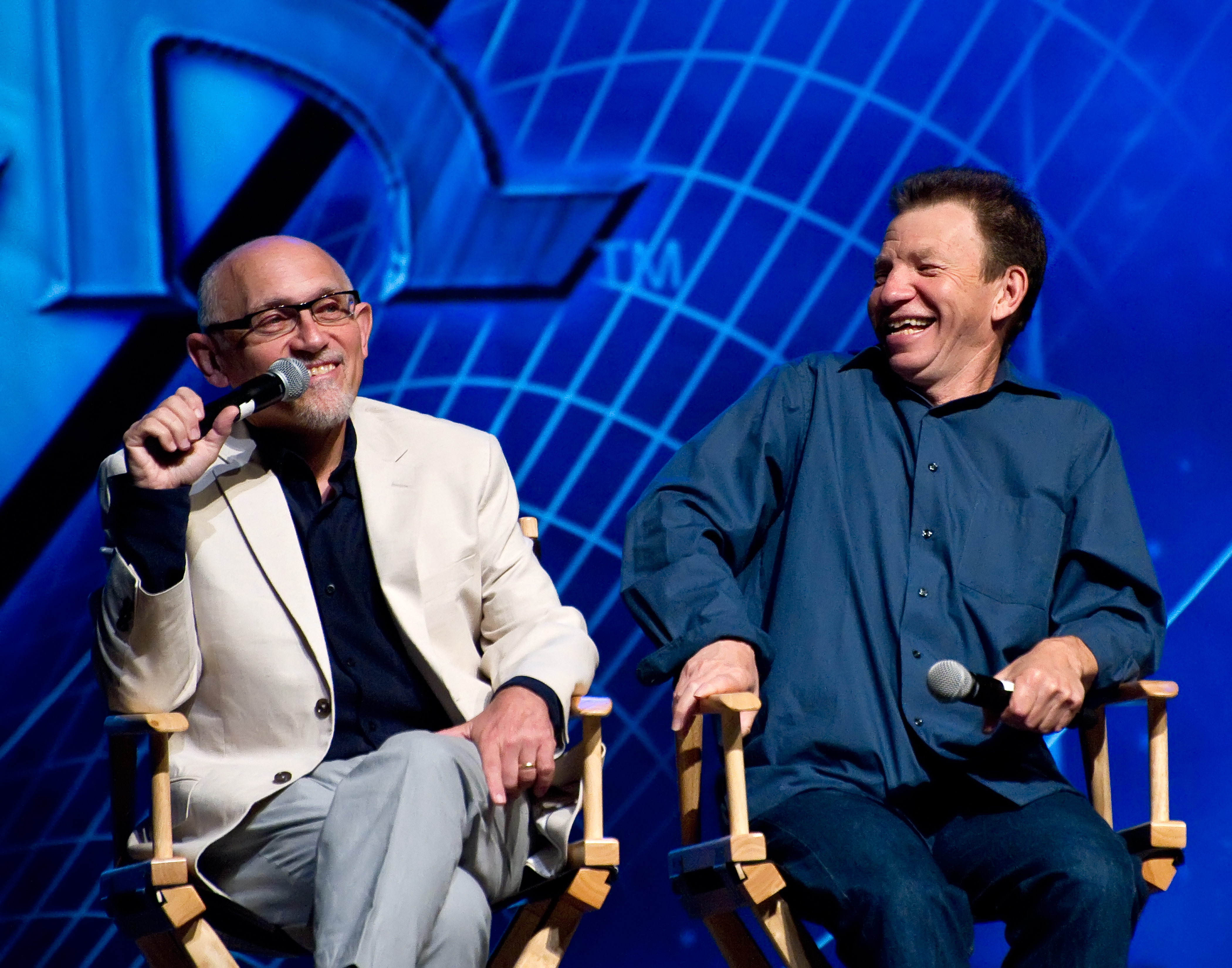 Armin Shimerman and Max Grodénchik at the Star Trek convention in Las Vegas in 2011.